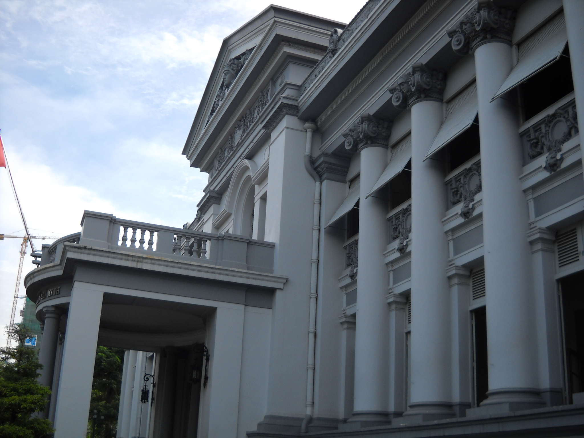 The Ho Chi Minh City Museum